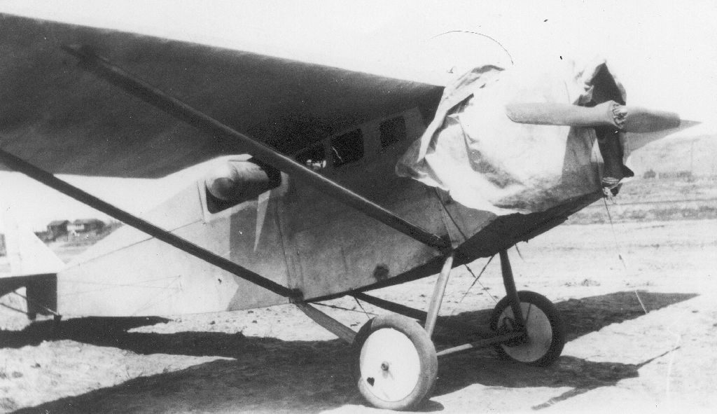 Hennessey monoplane (modification of Curtiss JN-4)